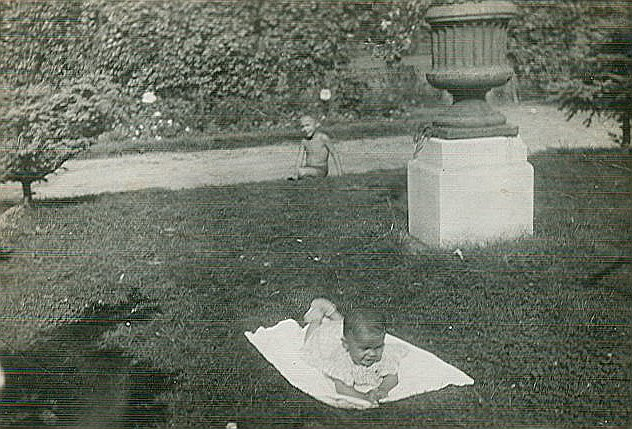 Piece of Stadium park in Dorog